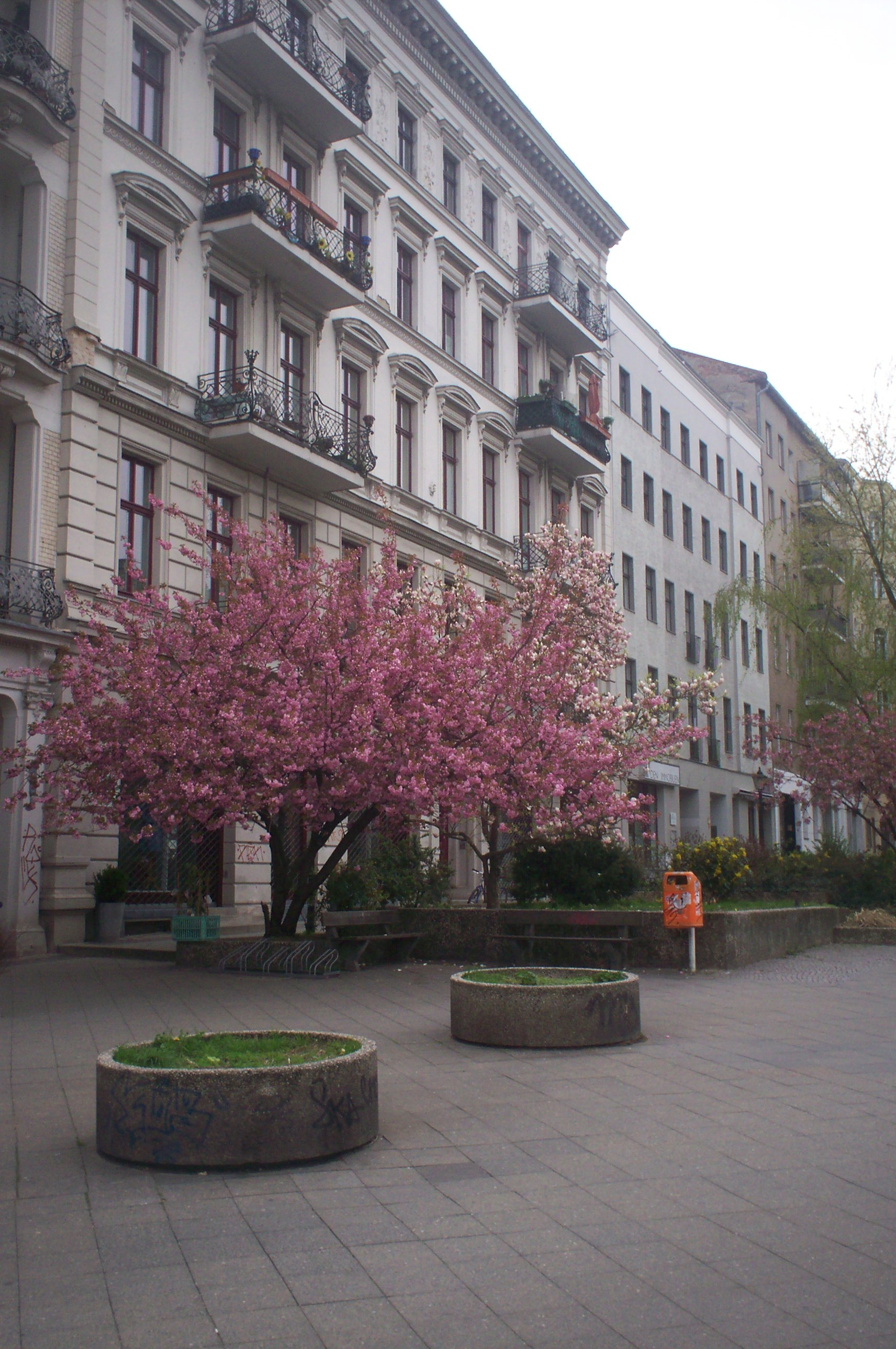 Tempelhofer Vorstadt (suburb towards Tempelhof), Berlin, Mehringdamm #75 in April 2011